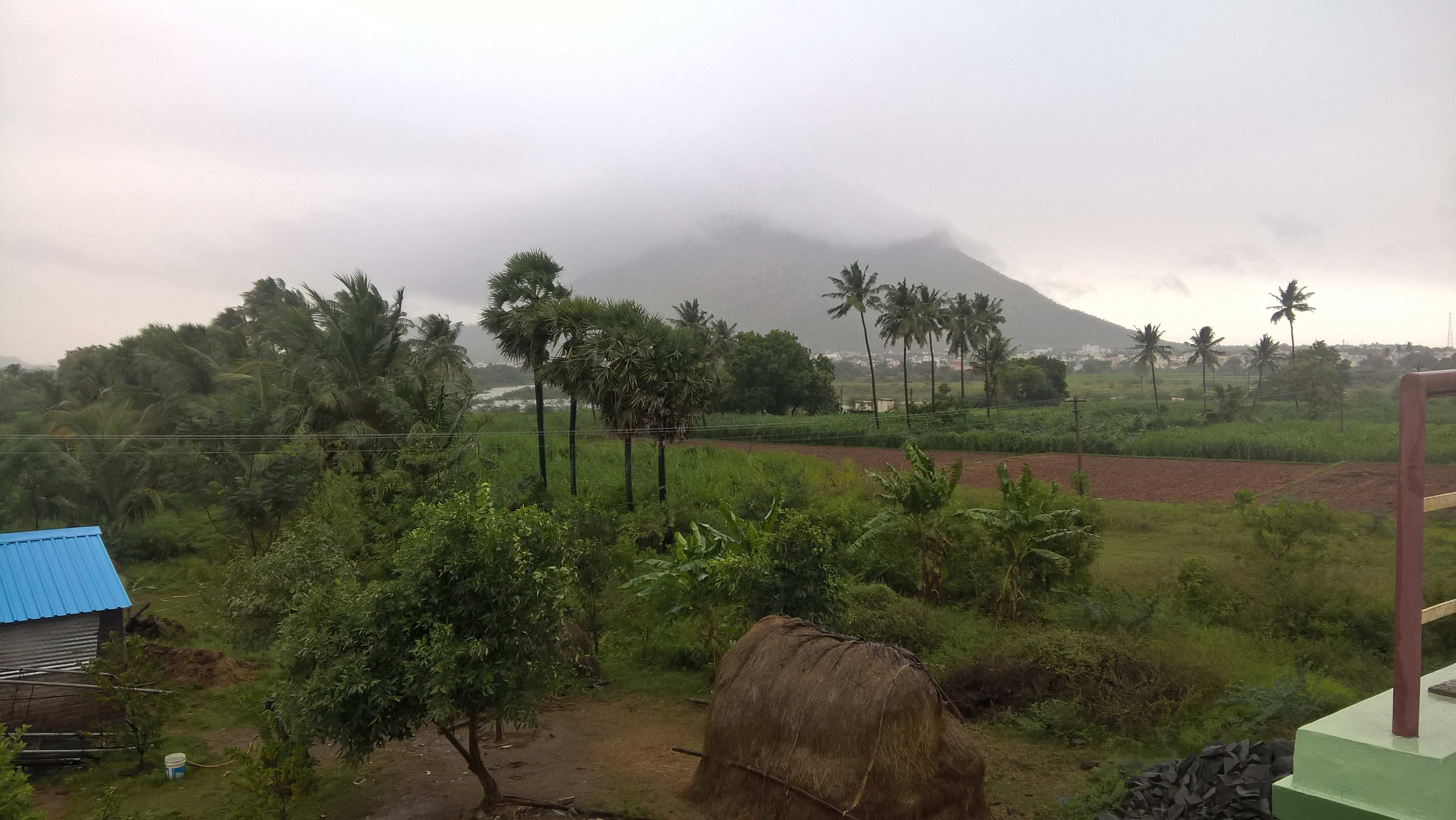 Cloudy holy hill